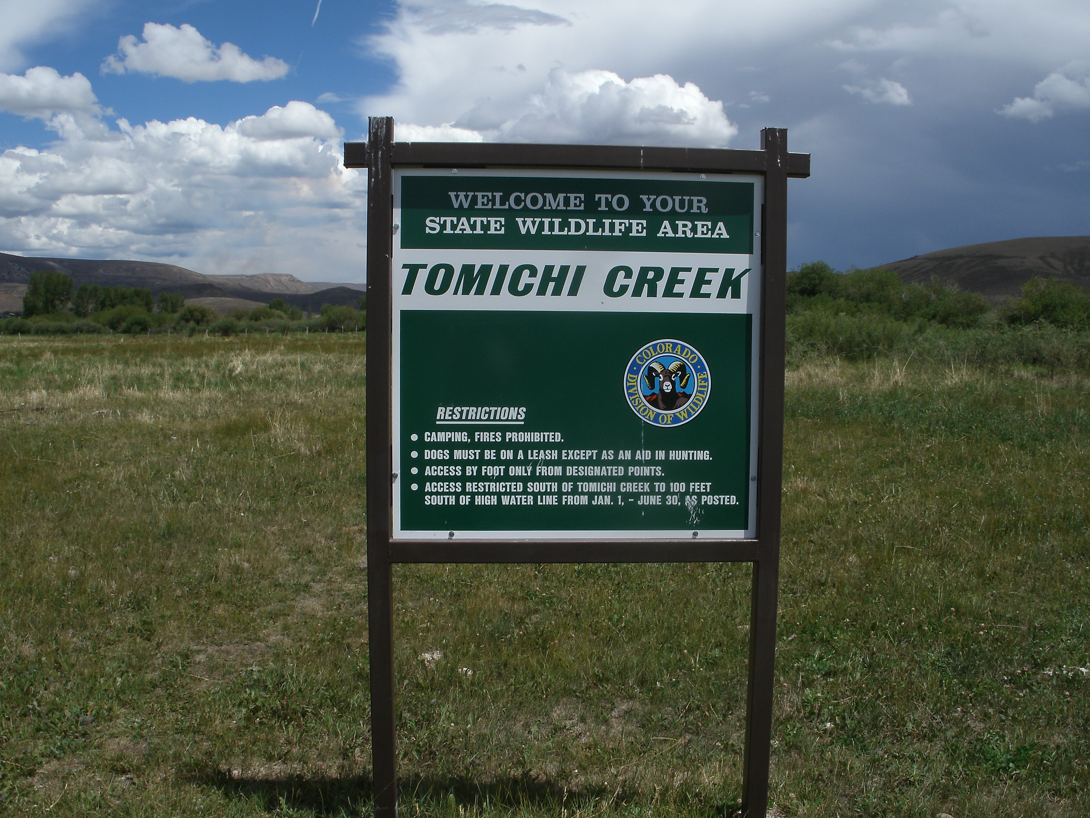 Photo of sign at Tomichi Creek State Wildlife Area at the east end of Gunnison-Crested Butte Regional Airport runway.